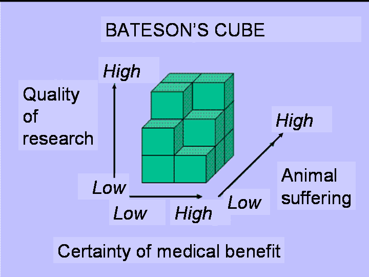 Bateson's Decision Cube is used in the ethical assessment of using animals in research